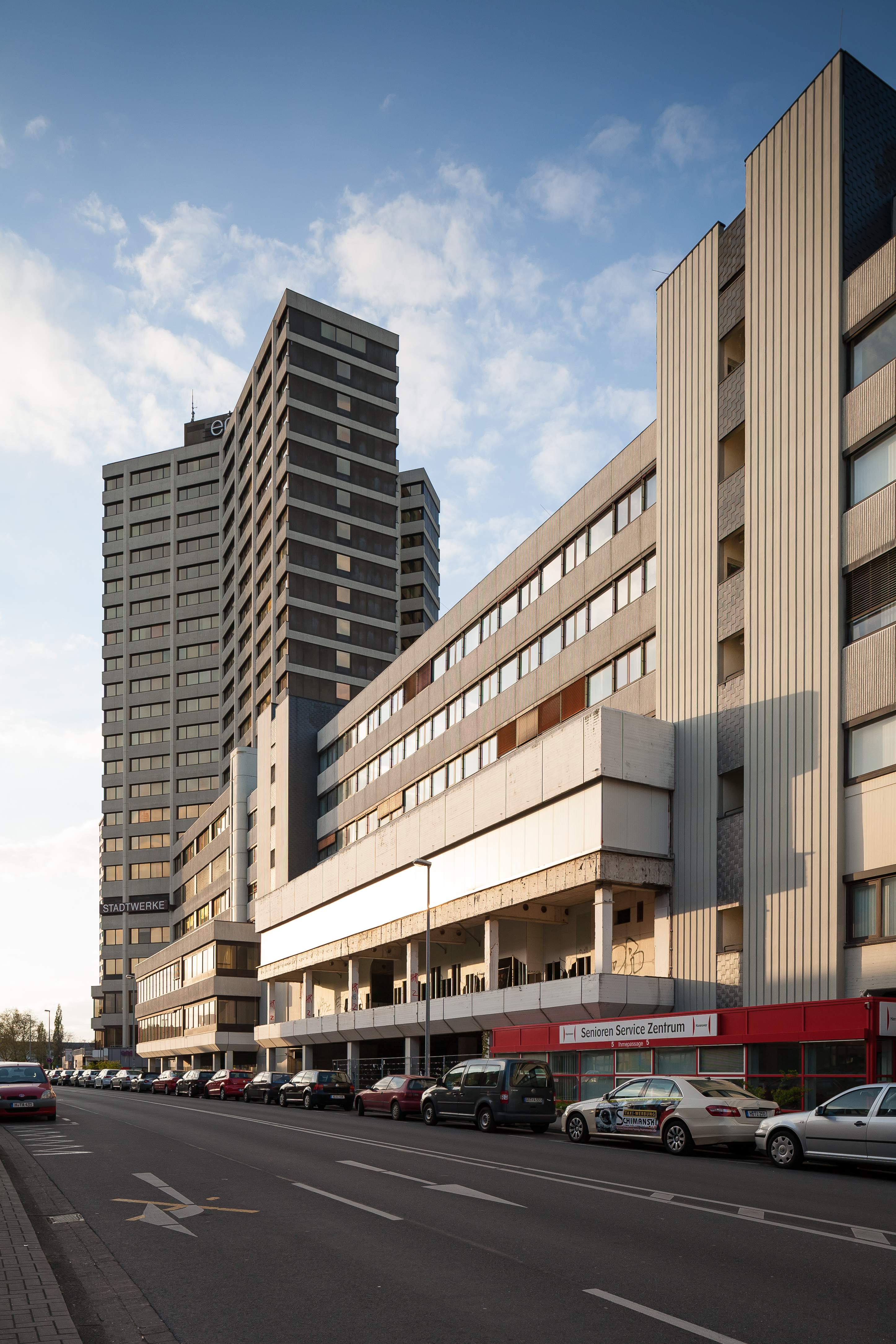 "Ihme-Zentrum" housing area located at Linden district in Hanover, Germany. View from Blumenauer Strasse. The high-rise of Hanover's municipal works is visible on the left side of the image.